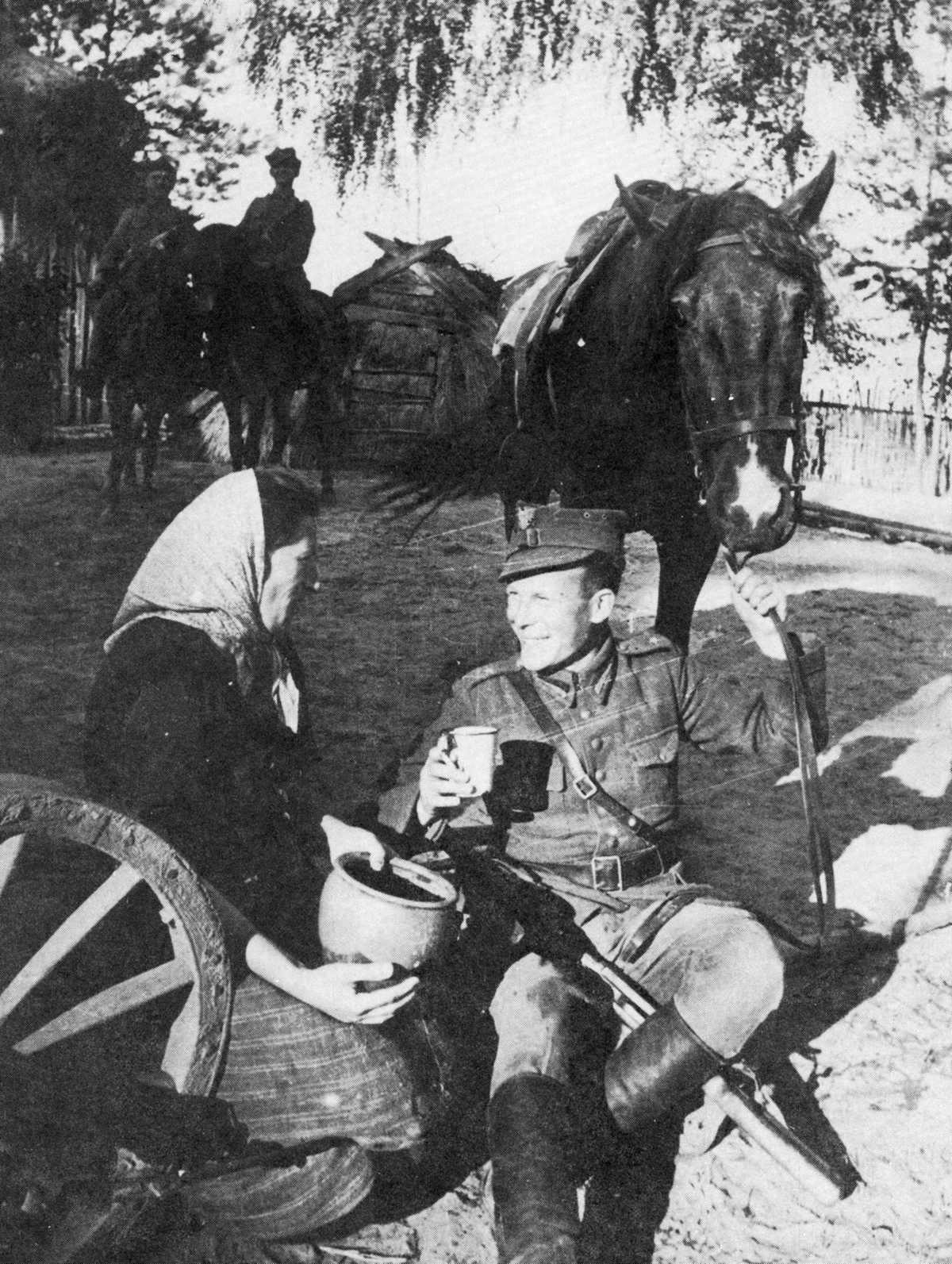 1st Independent Cavalry Brigade. Soldier and woman. August 1944 in Poland